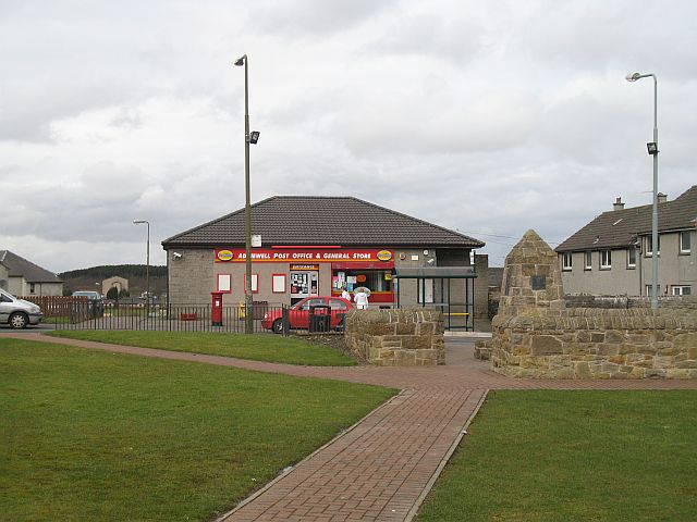 Addiewell post office With the memorial cairn.